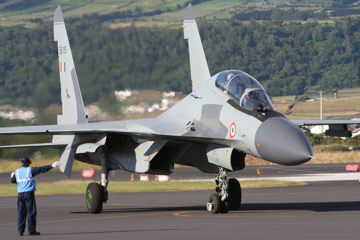 A member of the Indian air force marshals in a Sukhoi Su-30 MKI on the flight line, July 13, here at Lajes Field. The Indian air force is passing through Lajes on their way to participate in Red Flag at Nellis Air Force Base, Nevada. It is the first time the Indian air force has ever participated at Red Flag or deployed this aircraft to the United States.